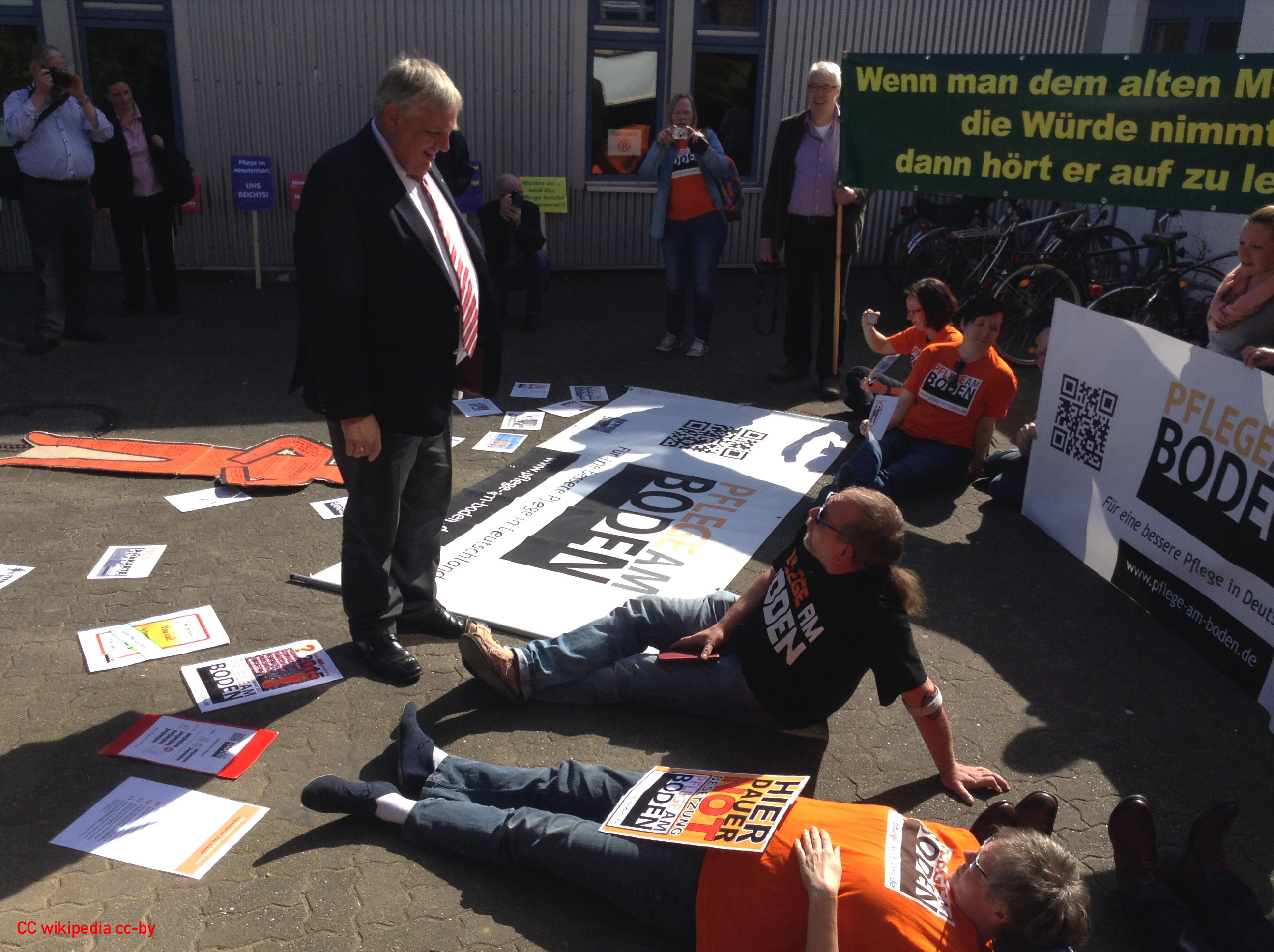 German government official Karl-Josef Laumann in an encounter with „Pflege am Boden“ activists. (Neuss, NRW)